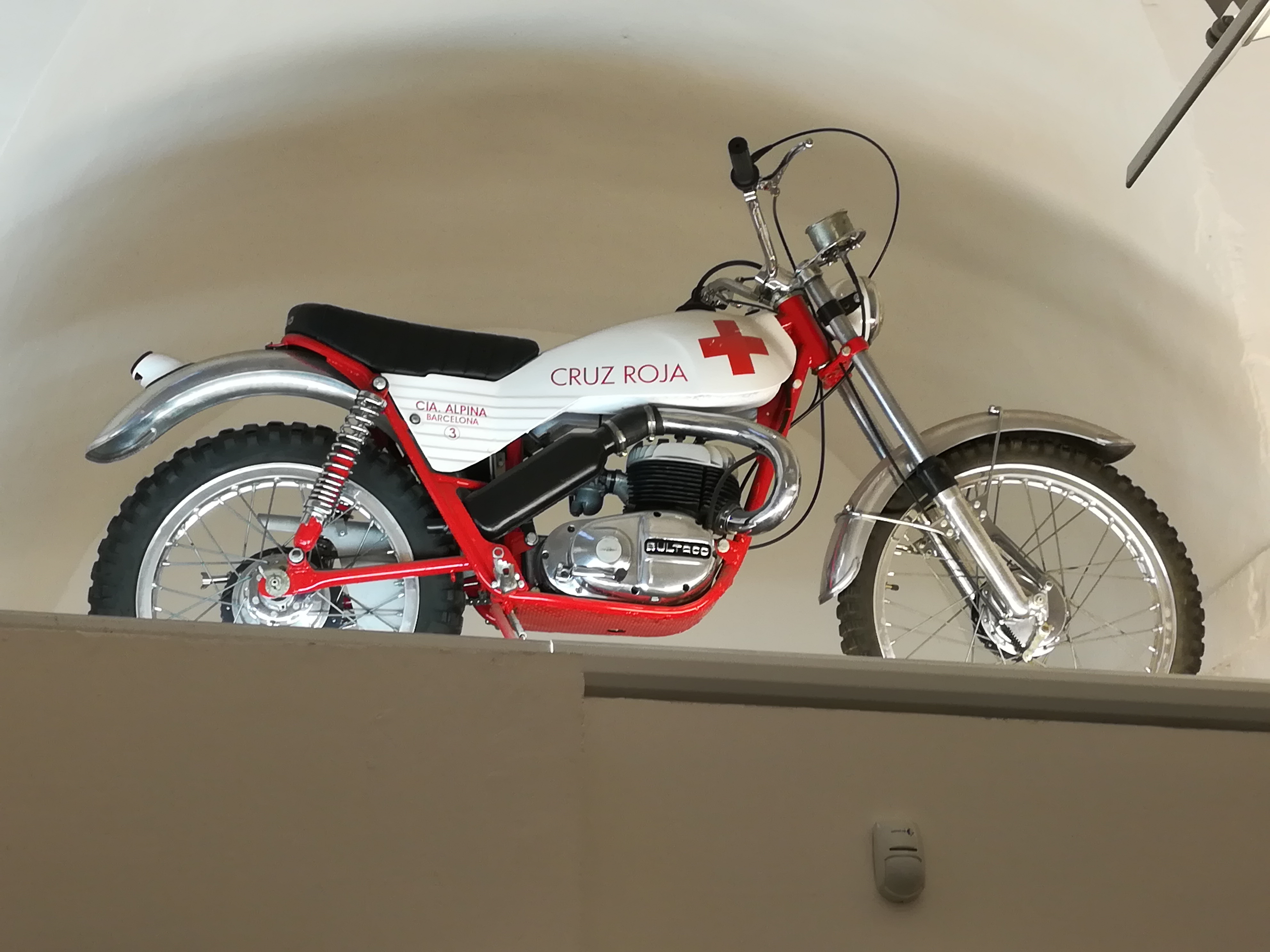 Bultaco Alpina 250cc (1971) owned by the Company Alpina of the Red Cross.Museu de la Moto de Barcelona (Catalonia).